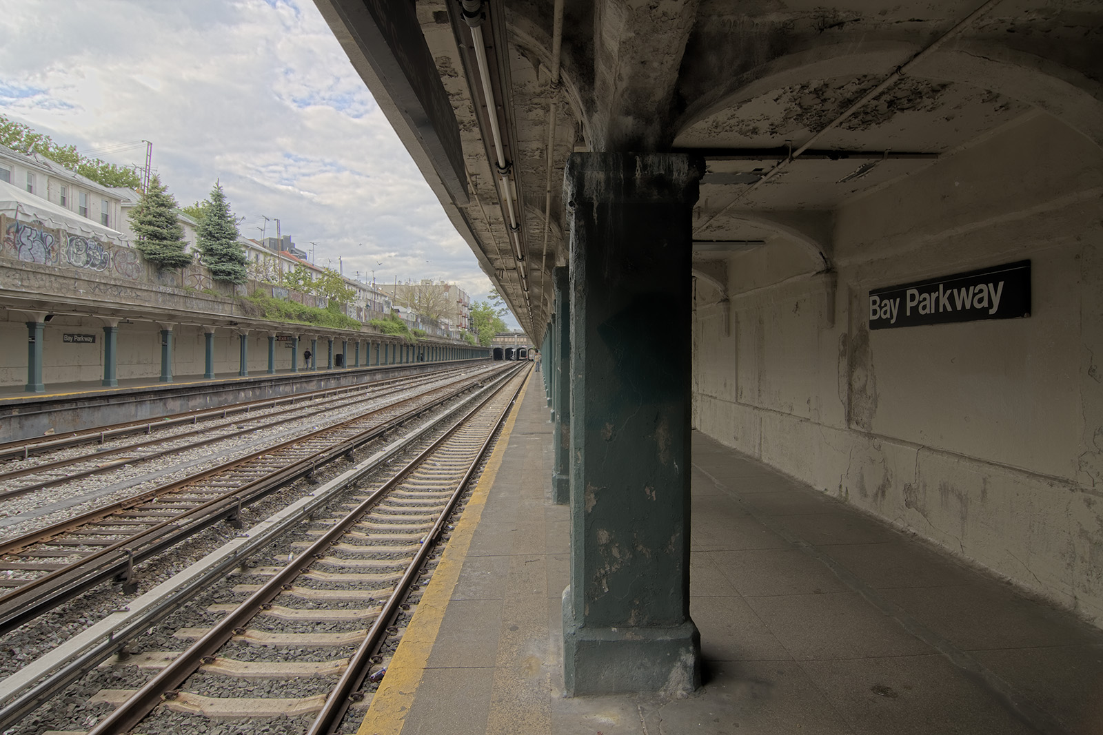 The tracks and Manhattan-bound platform of the Bay Parkway station on the N subway line in Brooklyn